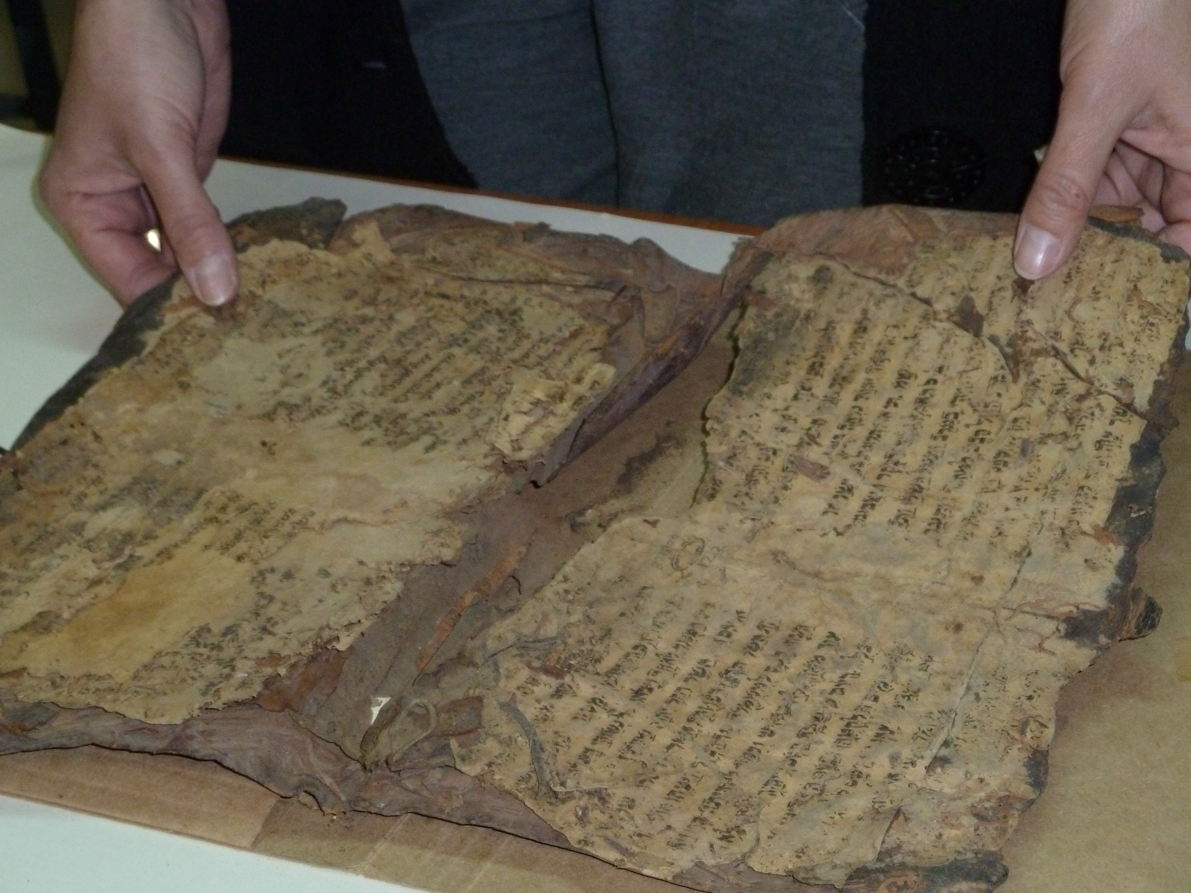 GLAM National Library of Israel Tour